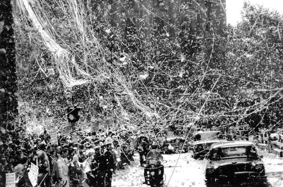 Ticker tape parade for presidential candidate Richard M. Nixon, New York, November 1960